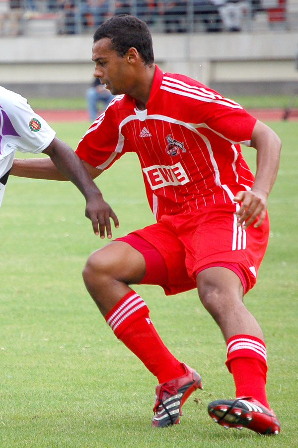 Marvin Matip